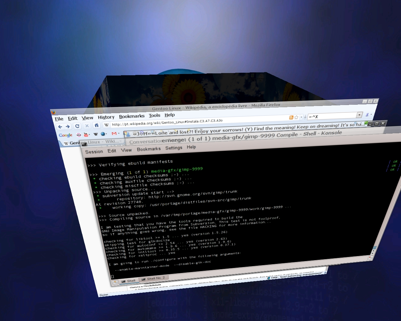 Gentoo Linux's Compiz 3D environment, emerging latests development version of Gimp